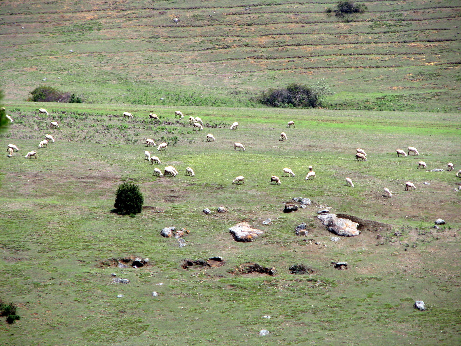 Places near Ooty (Udhagamandalam) and Conoor Ooty and Conoor Area